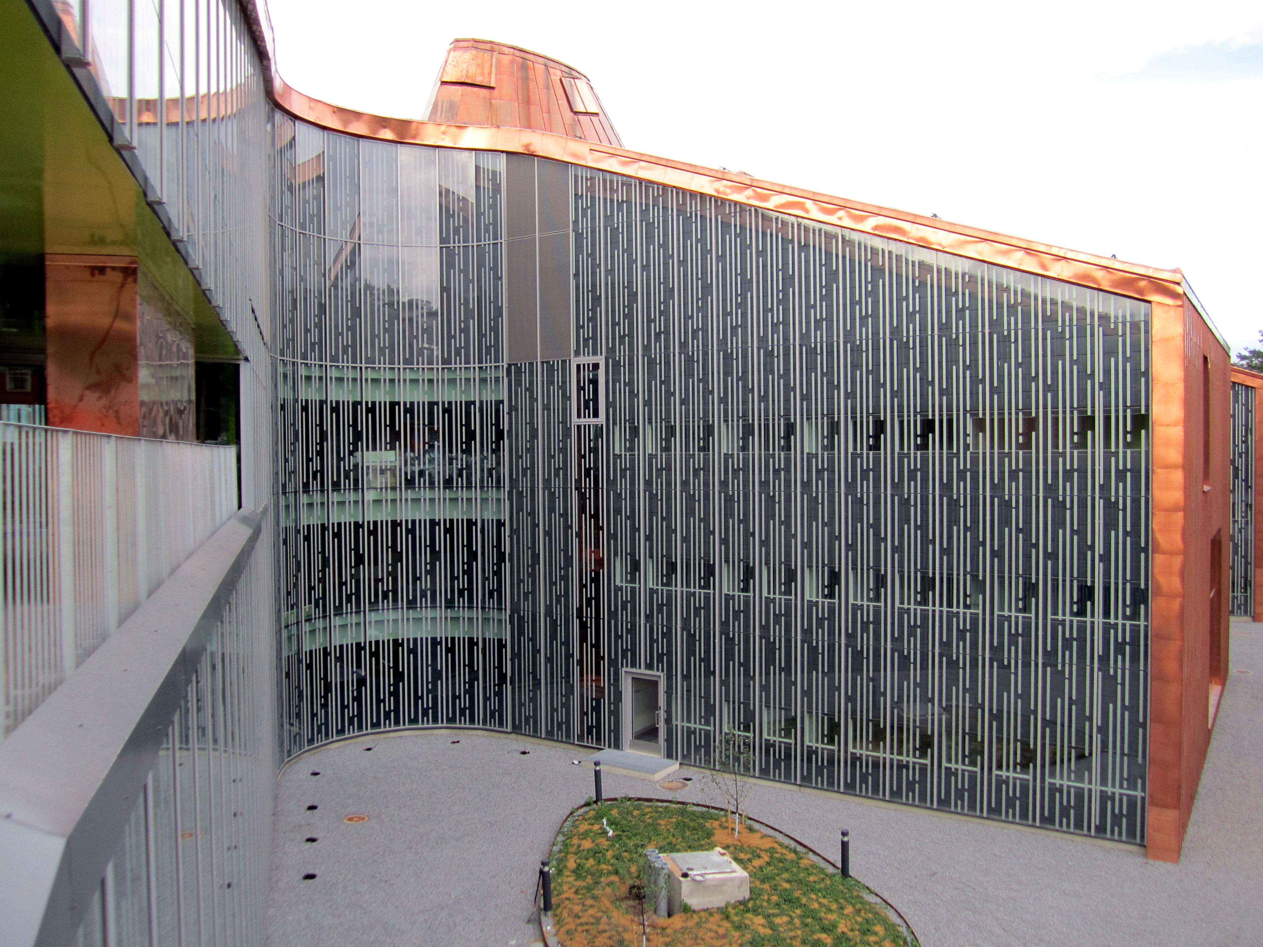 Tipotie Community Health Centre, Amuri, Tampere, Finland. At the time of photographing it was still under construction.